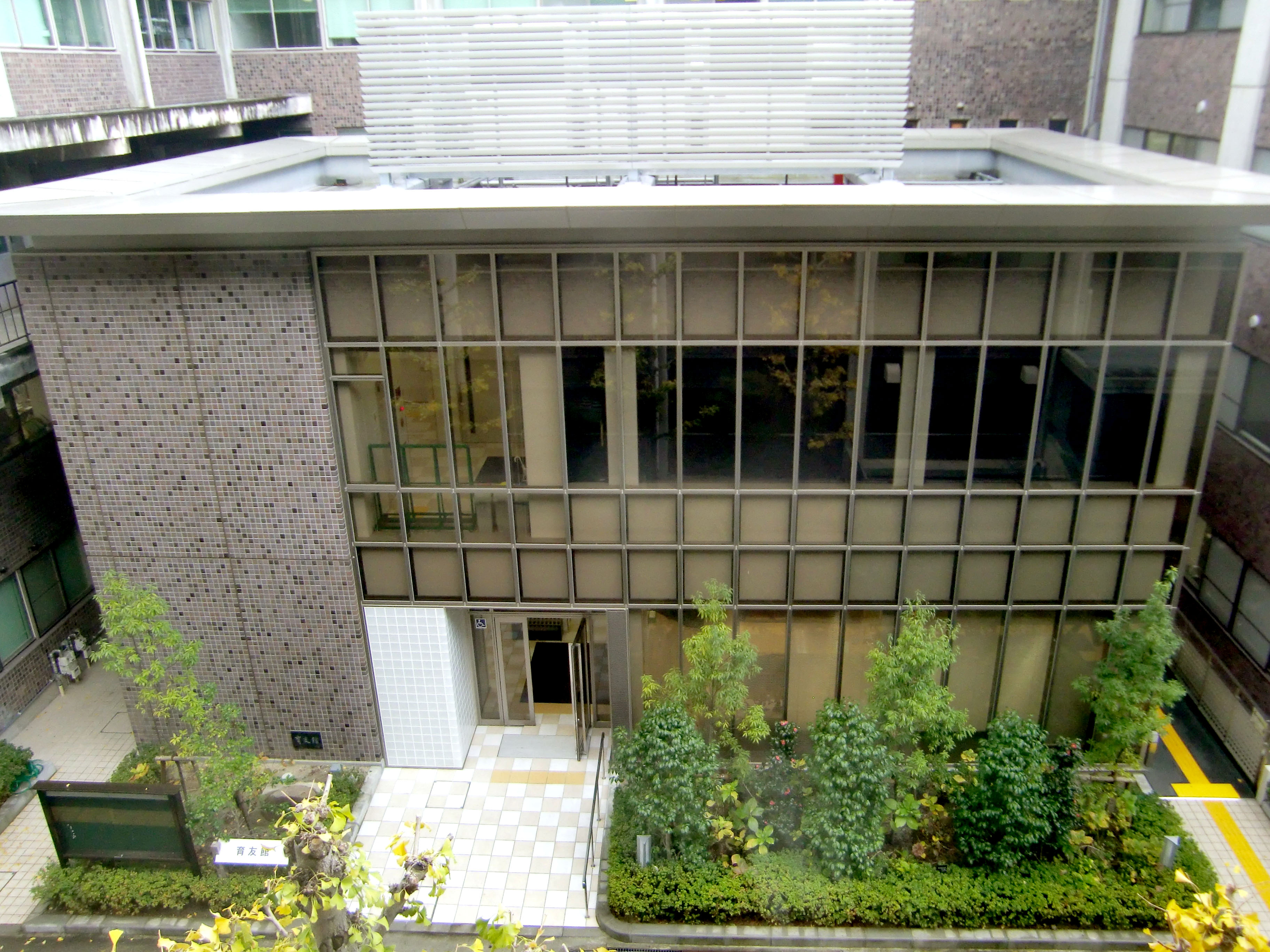 Ritsumeikan University Ikuyukan Hall,Tojiinkitamachi Kita-ku Kyoto-City JAPAN.